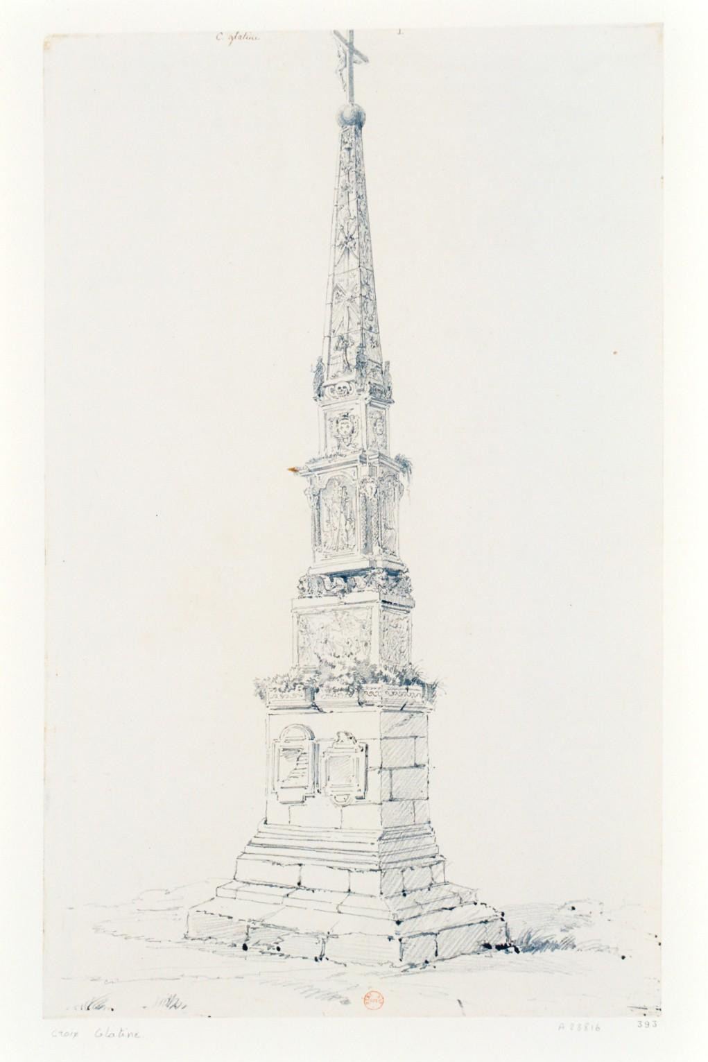 Drawing of Gastine cross in Paris by Charles-Louis Bernier